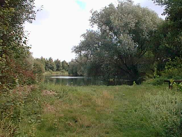 view of fish pond - was site of moated manor house